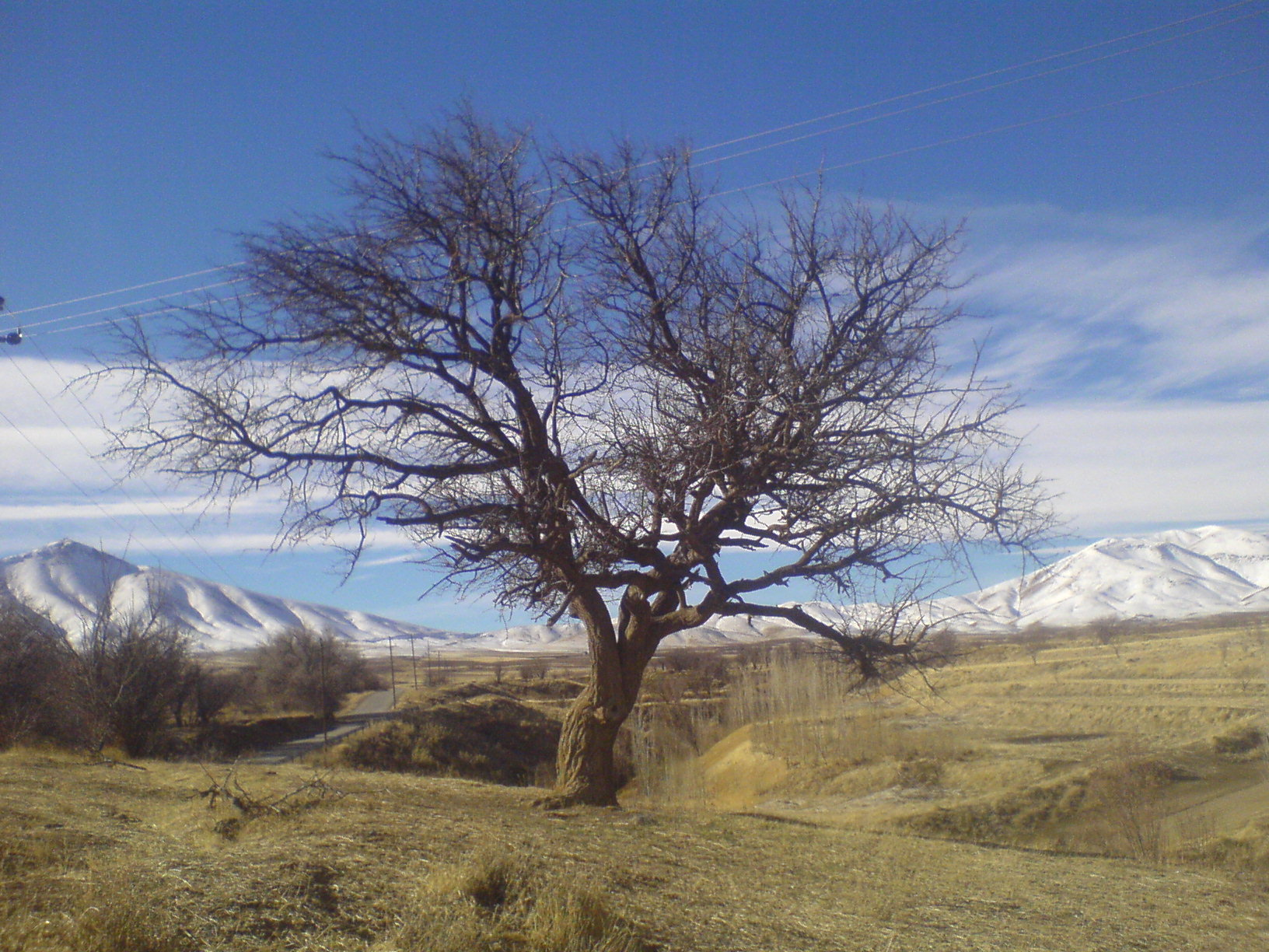 faraj abad فرج آباد روستایی زیبا در استان مرکزی شهرستان خمین